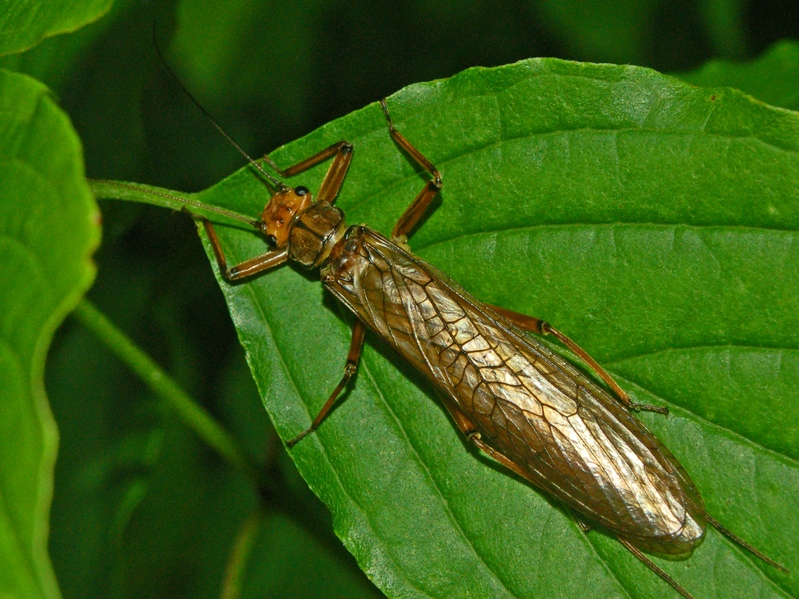 Dinocras ferreri in Val Noci, Genova, Italy